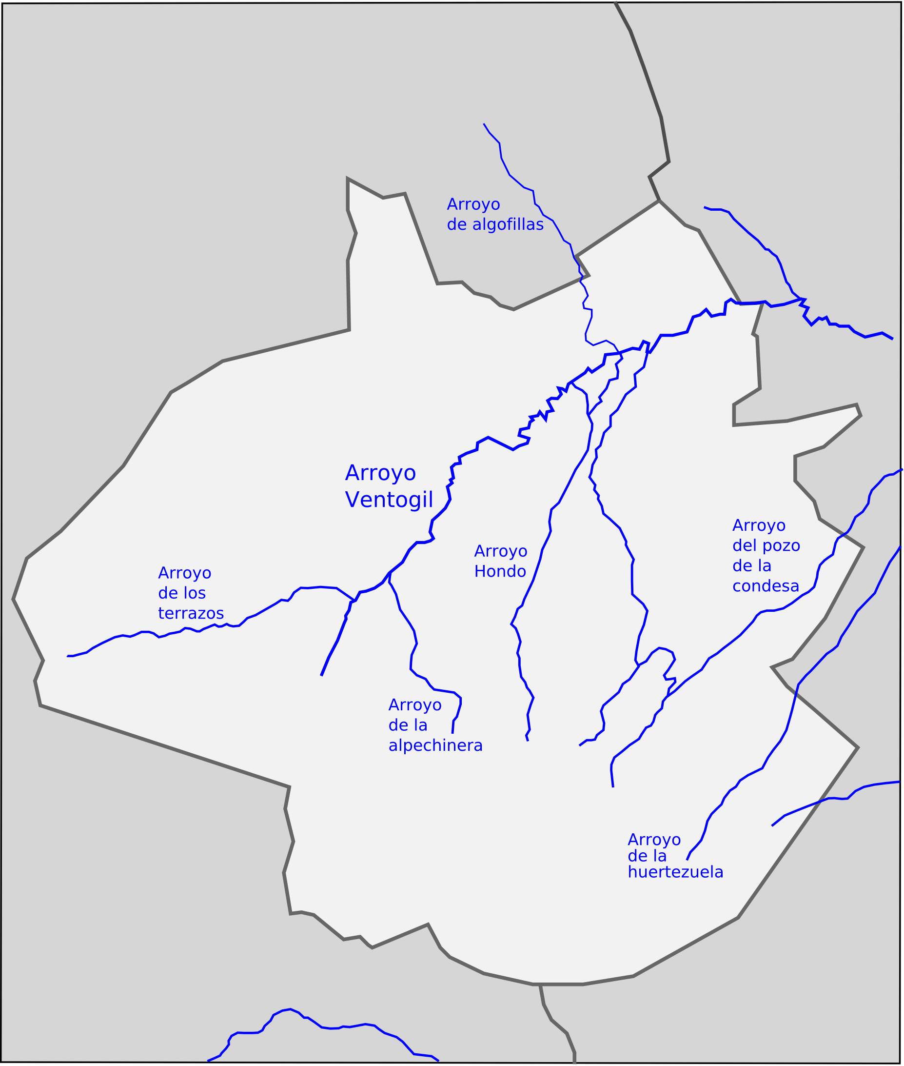 Hidrographic map of Fernán Núñez (Córdoba - Spain)